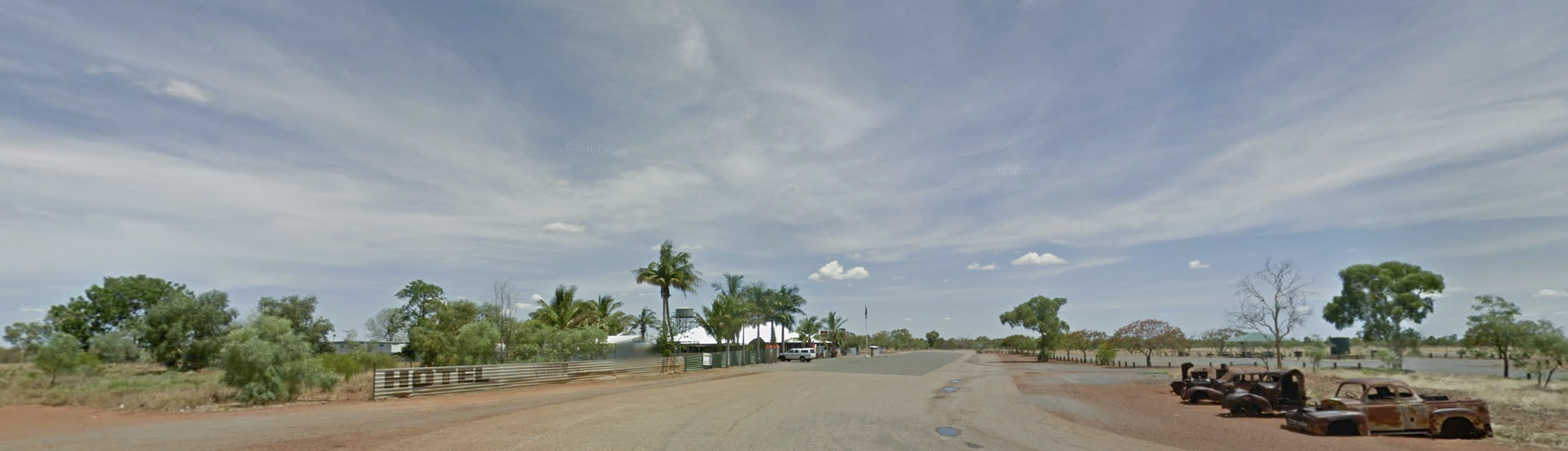 Locality of Wauchope, Northern Territories, Australia